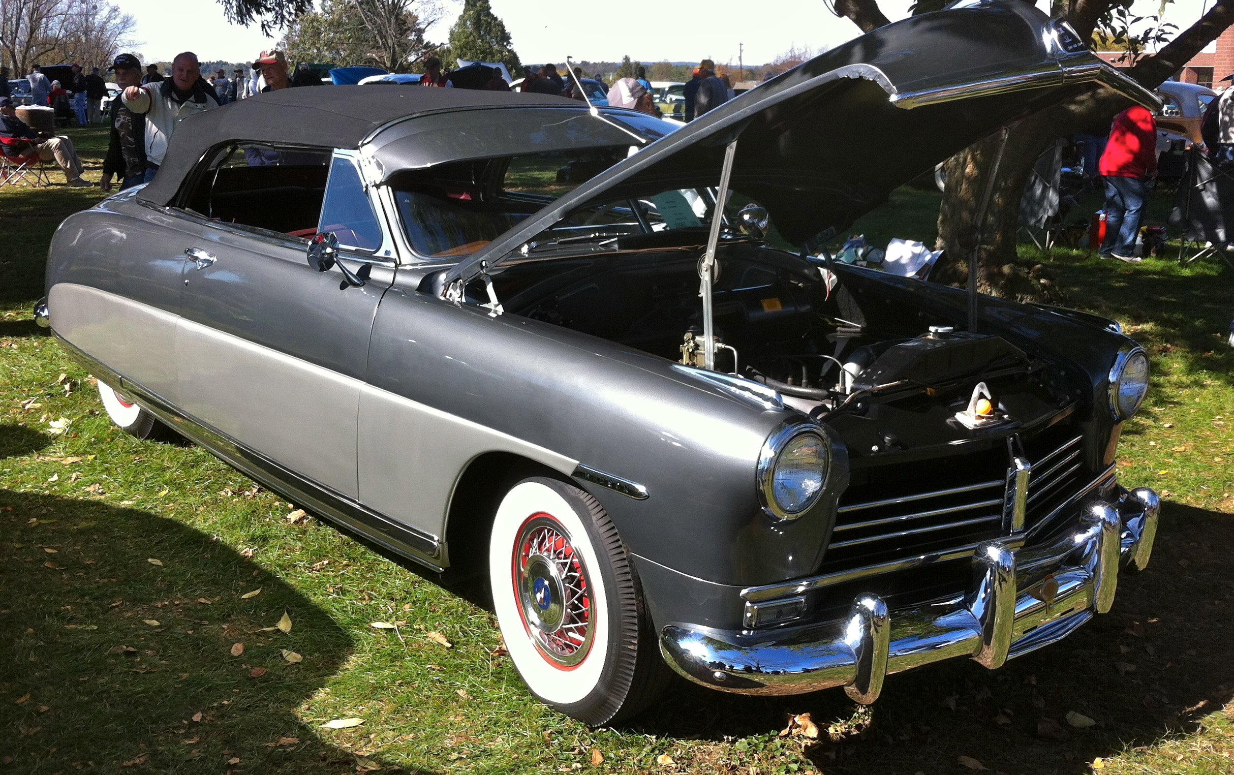 1948 Hudson Commodore convertible. Right front side view. One of the first post World War II cars to the marketplace, the 1948 model year inaugurated Hudson's trademarked "Monobuilt" construction or "step-down" automobile. ( Picture taken on the show field of the Antique Automobile Club of America (AACA) 2012 Hershey meet that is held every October in Pennsylvania.